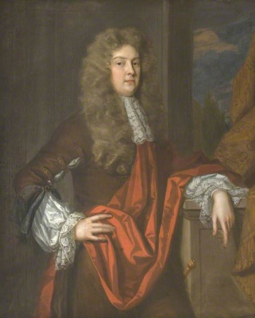 Sir Justinian Isham (1658-1730), 4th Baronet of Lamport and Member of Parliament by Godfrey Kneller